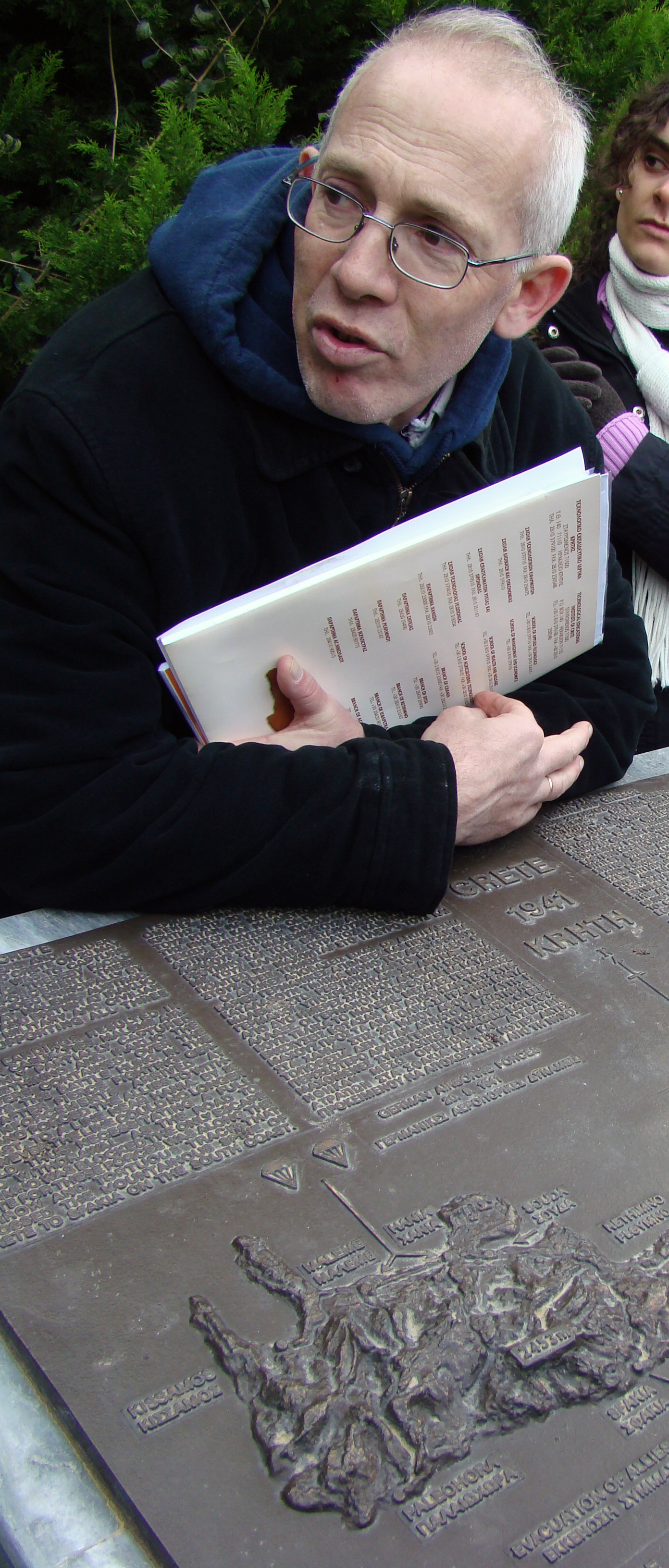 Gareth Owens explaining a lesson on a relief in a park of Heraklion